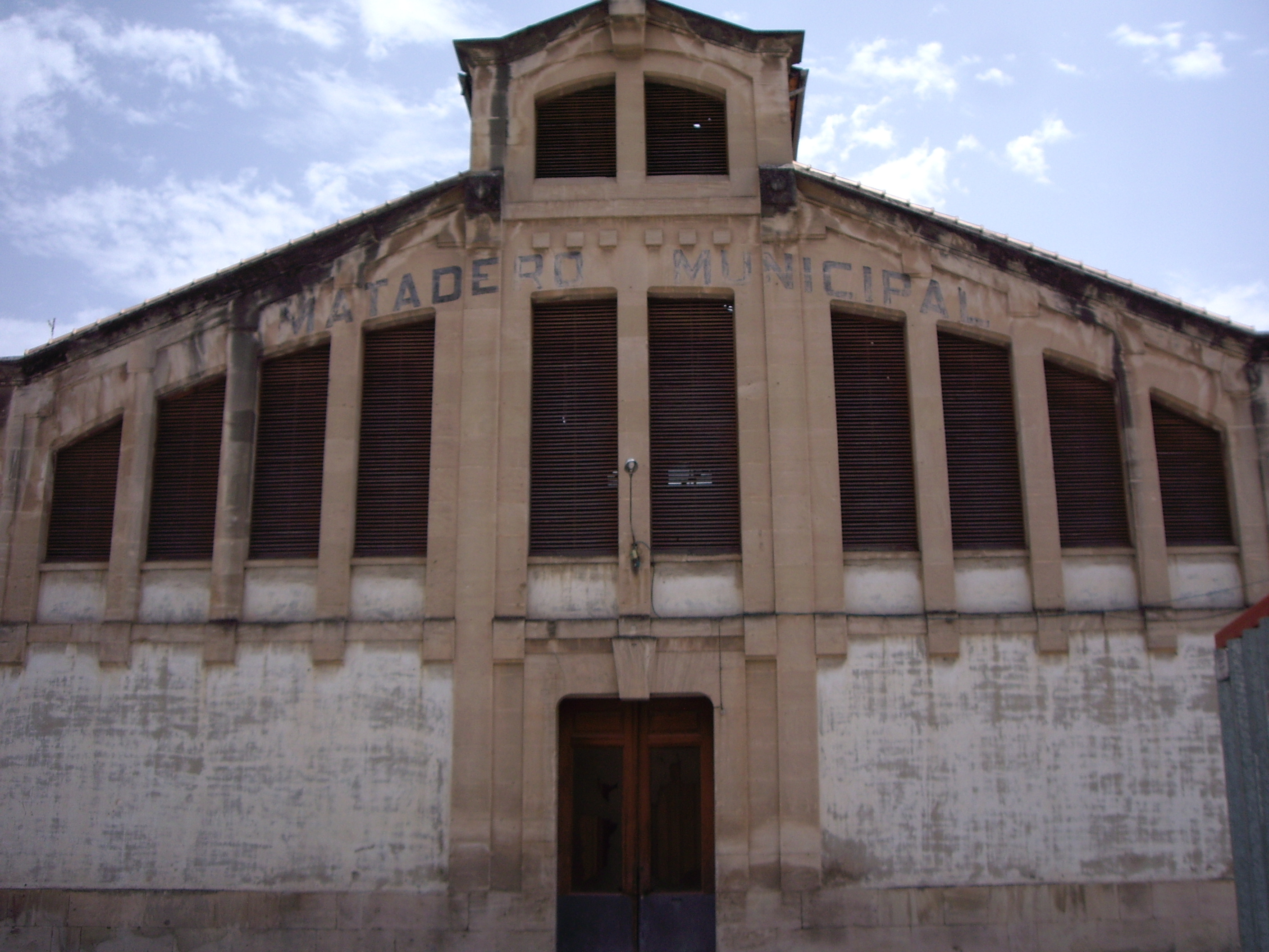 The façade of the old slaughterhouse in Alcoi